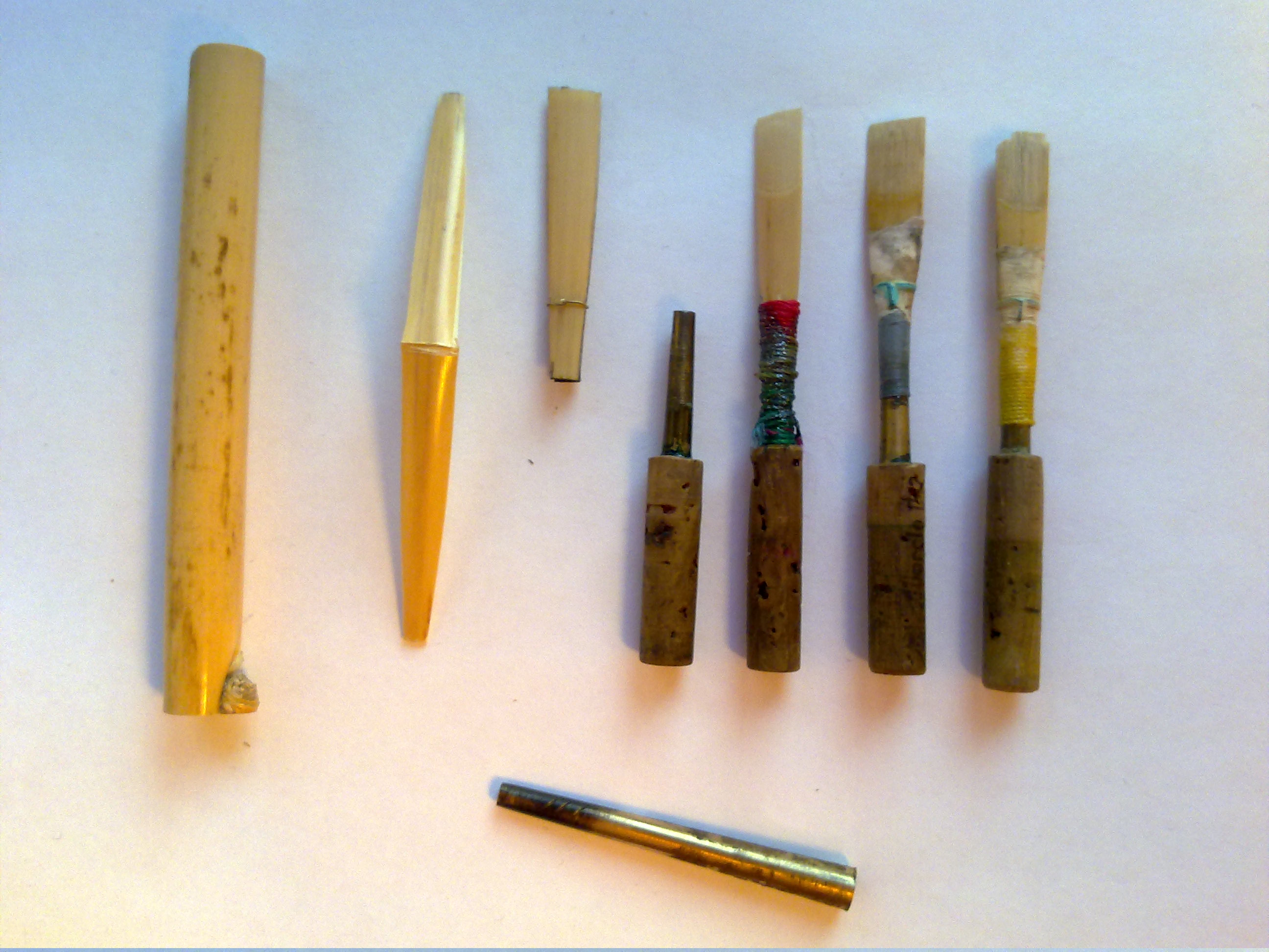 Phases of oboe reeds. Below: the stable without the cork